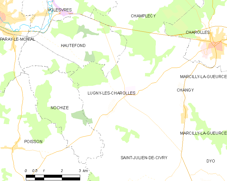 Map of French municipality